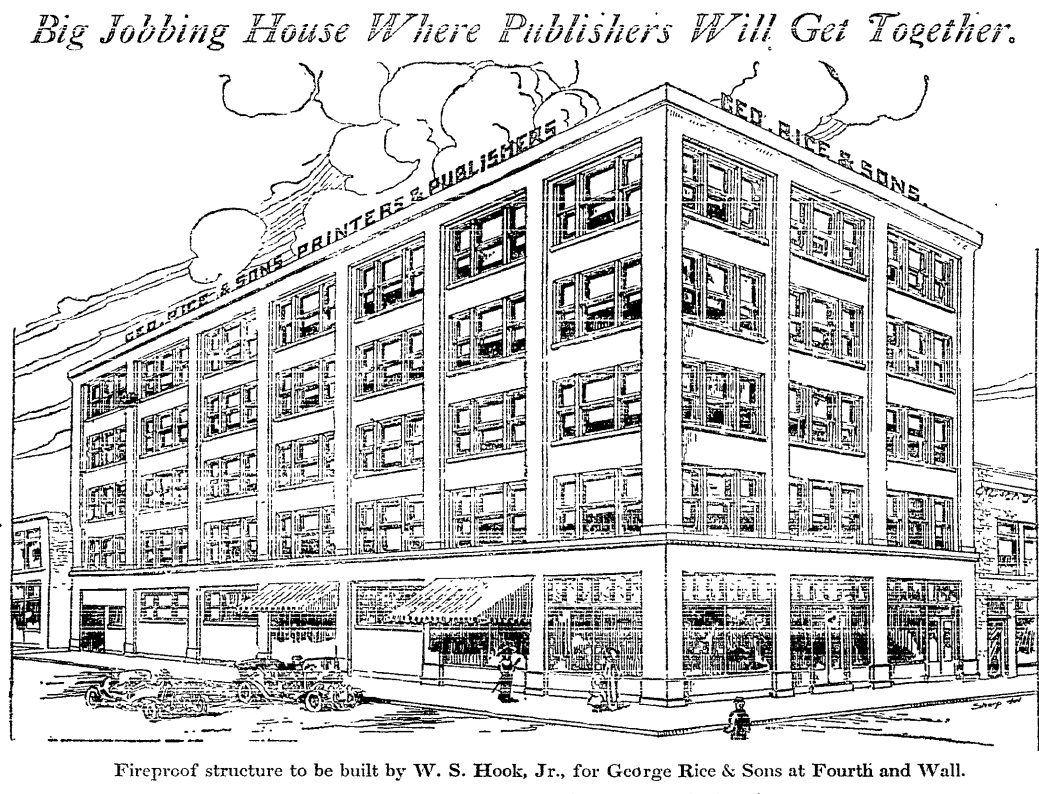 Screen grab of portion of a Los Angeles Times page showing a drawing of a proposed new building for the printing trades in the Warehouse District, 1911.